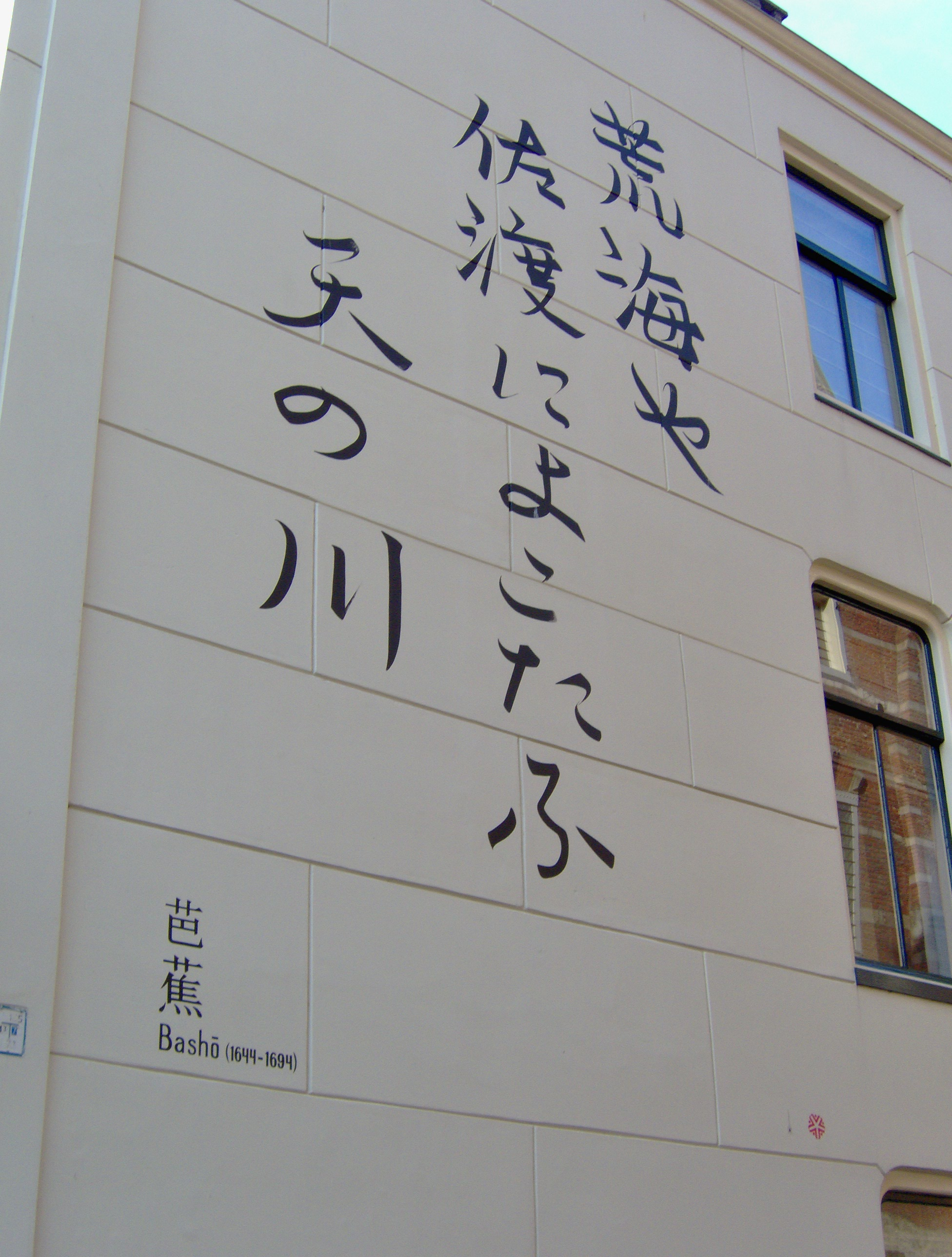 The poem The rough sea of the Japanese poet Matsuo Bashō on a wall of the building on the Rapenburg 75, Leiden, The Netherlands.